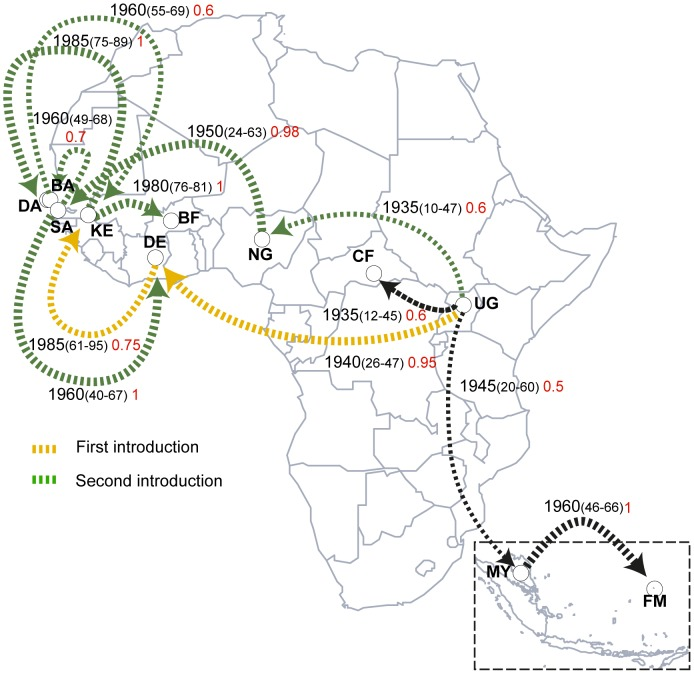 The directed lines connect the most probable sources and target localities of viral lineages (shown by arrows), with widths proportional to the posterior probabilities and values shown in red. Only plausible routes with probabilities above 50% are shown. The distinct introductions into Senegal and Côte d'Ivoire were represented by different colors. The estimated time to the most recent common ancestor of strains from different countries are shown with 95% posterior time intervals in parenthesis and could be interpreted as the oldest possible year of introduction of that lineage at that locality. Letter codes: UG – Uganda CF – Central African Republic DE – Dezidougou in Côte d'Ivoire SS – Sokala-Sobara in Côte d'Ivoire KE – Kedougou in Senegal SA – Saboya in Senegal BA – Bandia in Senegal DA – Dakar in Senegal BF – Burkina Faso NG – Nigeria MY – Malaysia FM – Yap Island in the Federated States of Micronesia